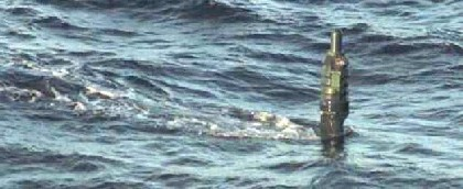 An image of a photonic mast array on a USS Virginia class submarine.